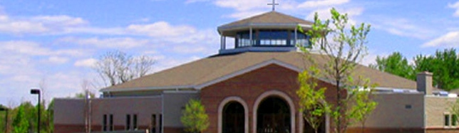 Outside of Church at St Basils Kimberton